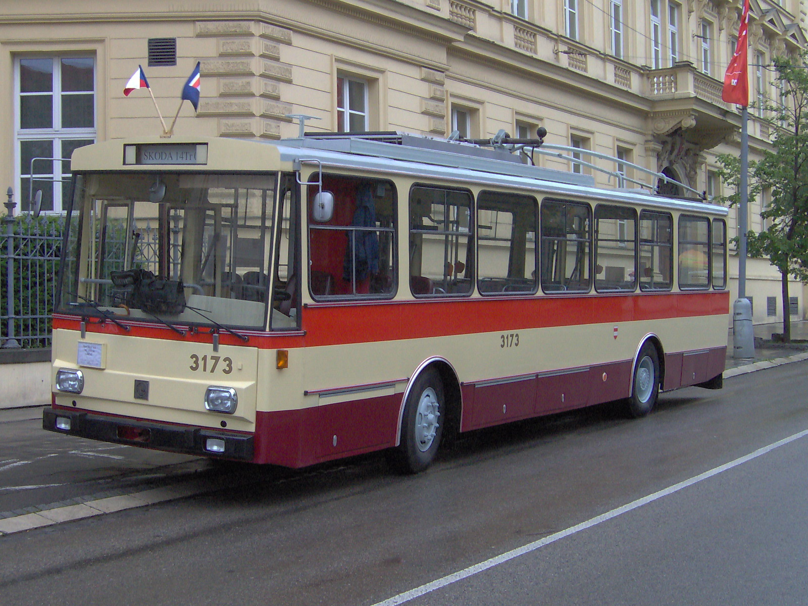 Historical Škoda 14Tr trolleybus in Brno (now possession of Technical museum Brno)